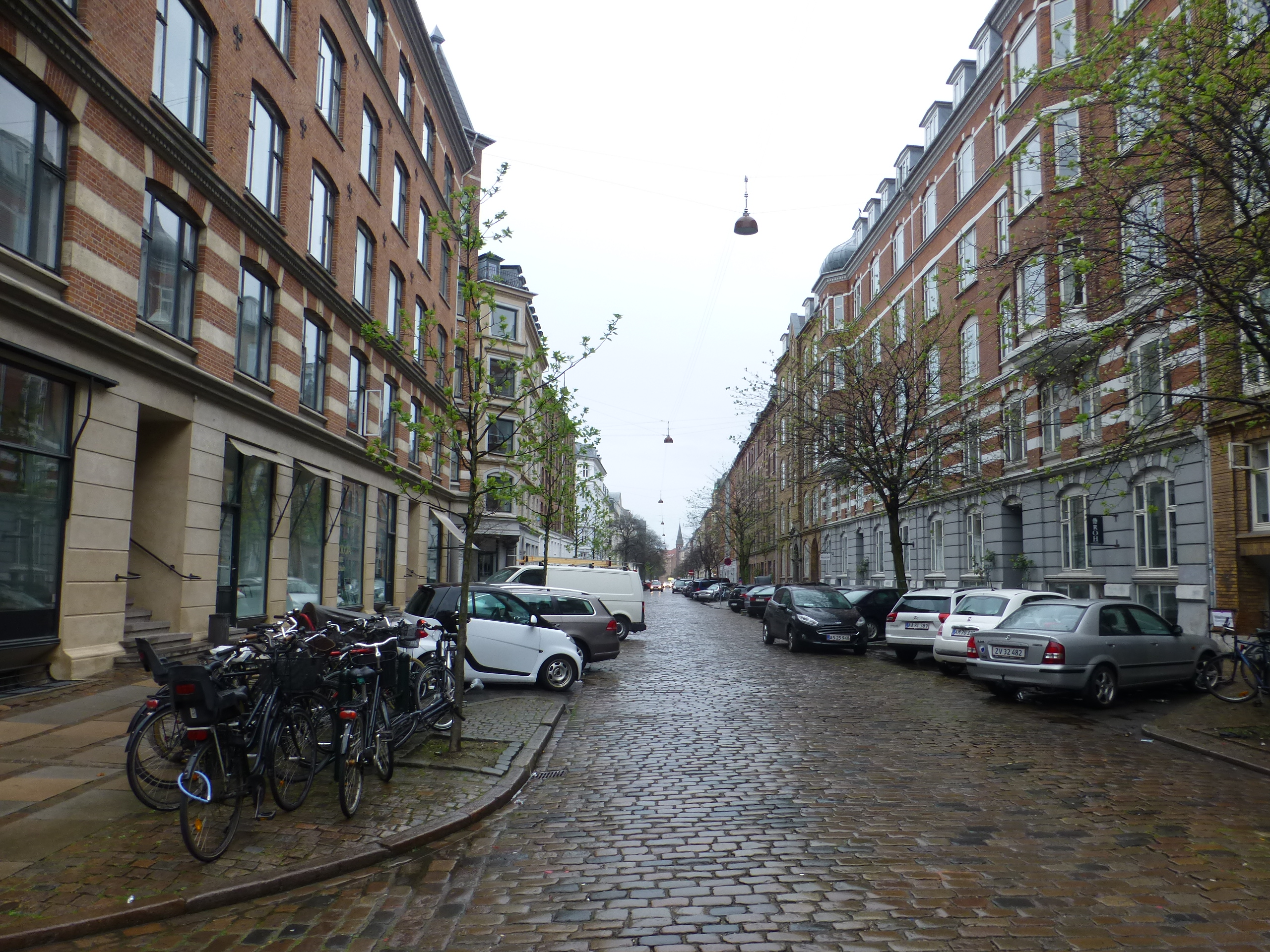 The street Willemoesgade at Rosendalsgade in Østerbro in Copenhagen.